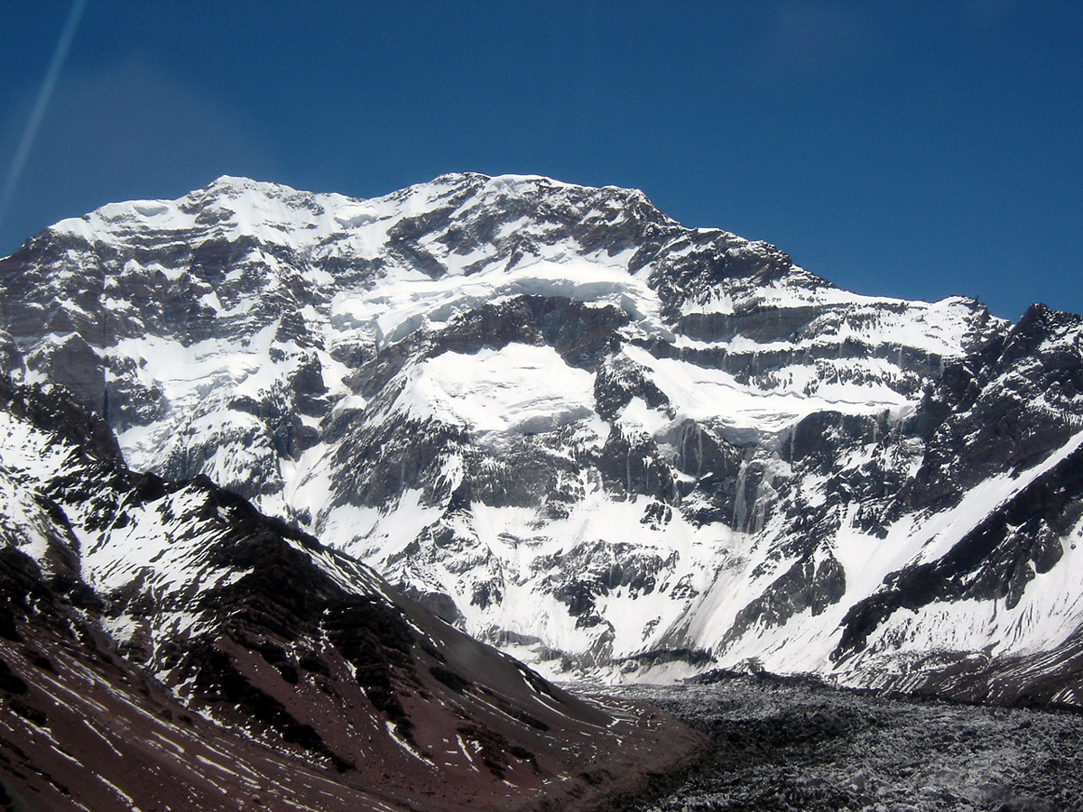 Aconcagua summit, with glaciar at the mountain foot, ARG